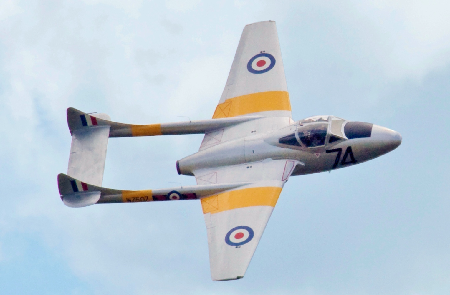 de Havilland Vampire T11 WZ507